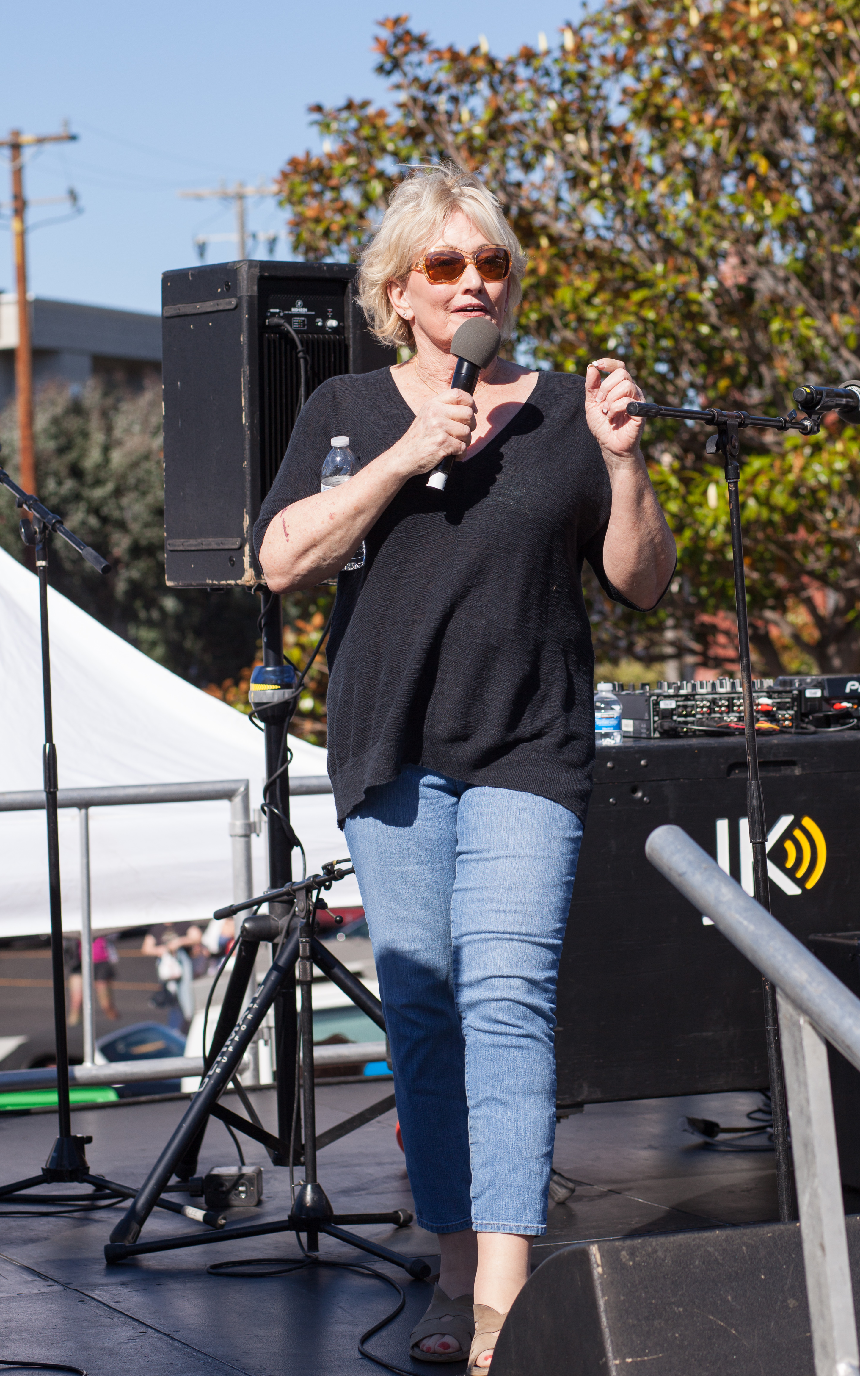 Theresa Sparks, senior advisor to the mayor on transgender initiatives, speaks on stage at the San Francisco Trans March 2016.